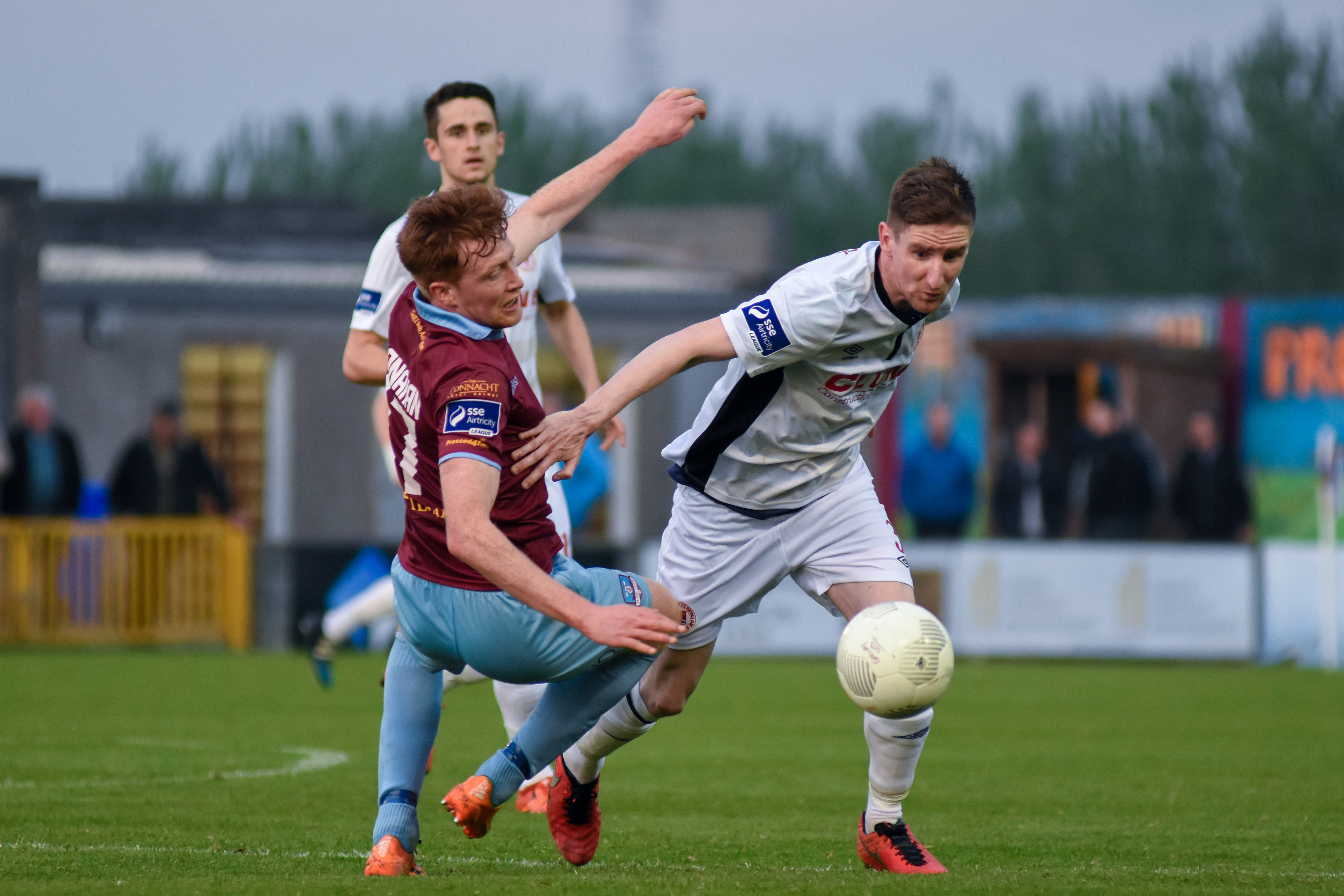 Gary Shanahan (Galway United) and Ian Bermingham (St. Patrick's Athletic) in action in the 2016 League of Ireland